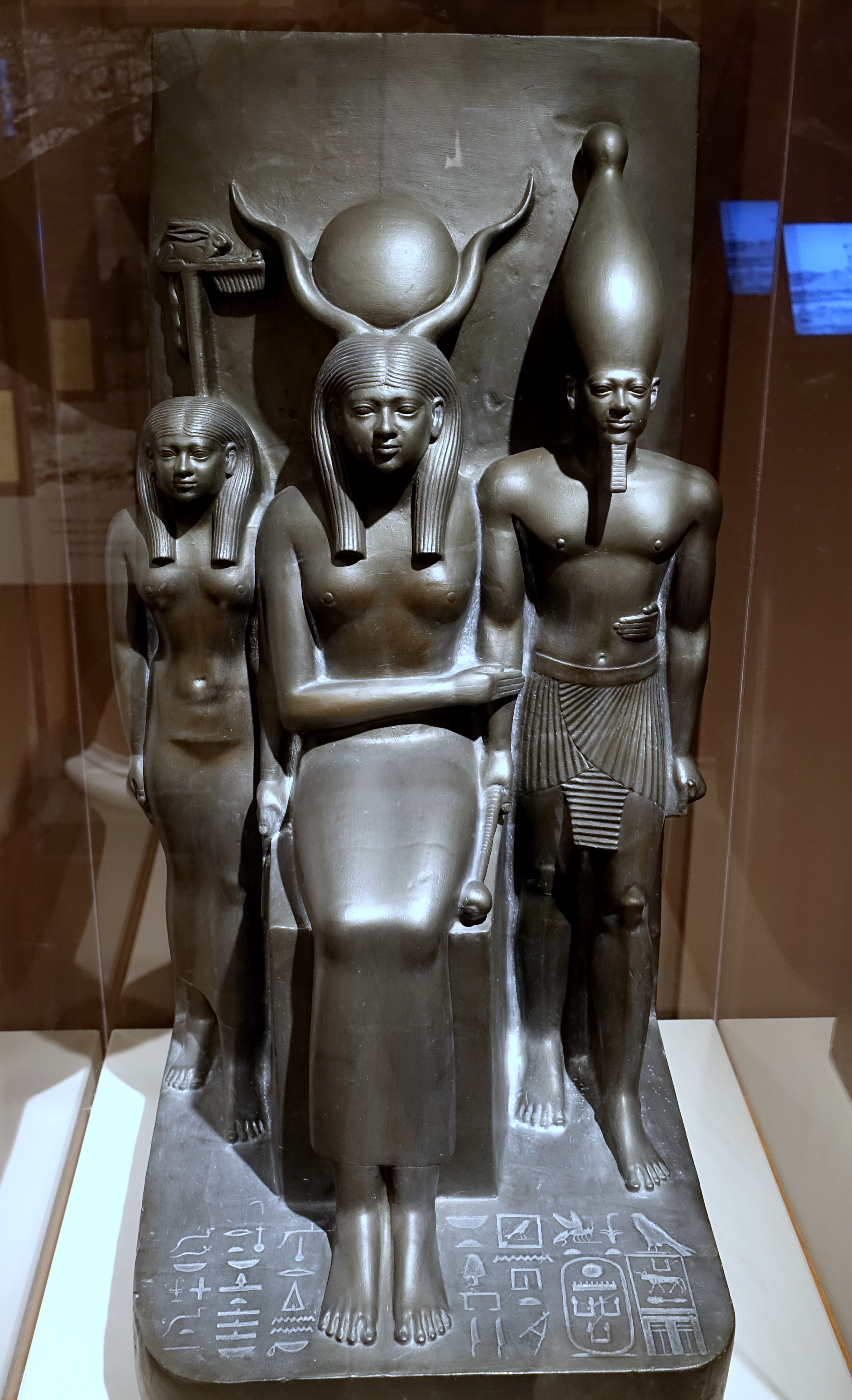 Exhibit in the Harvard Semitic Museum, Harvard University - Cambridge, Massachusetts, USA. This work is old enough so that it is in the public domain.